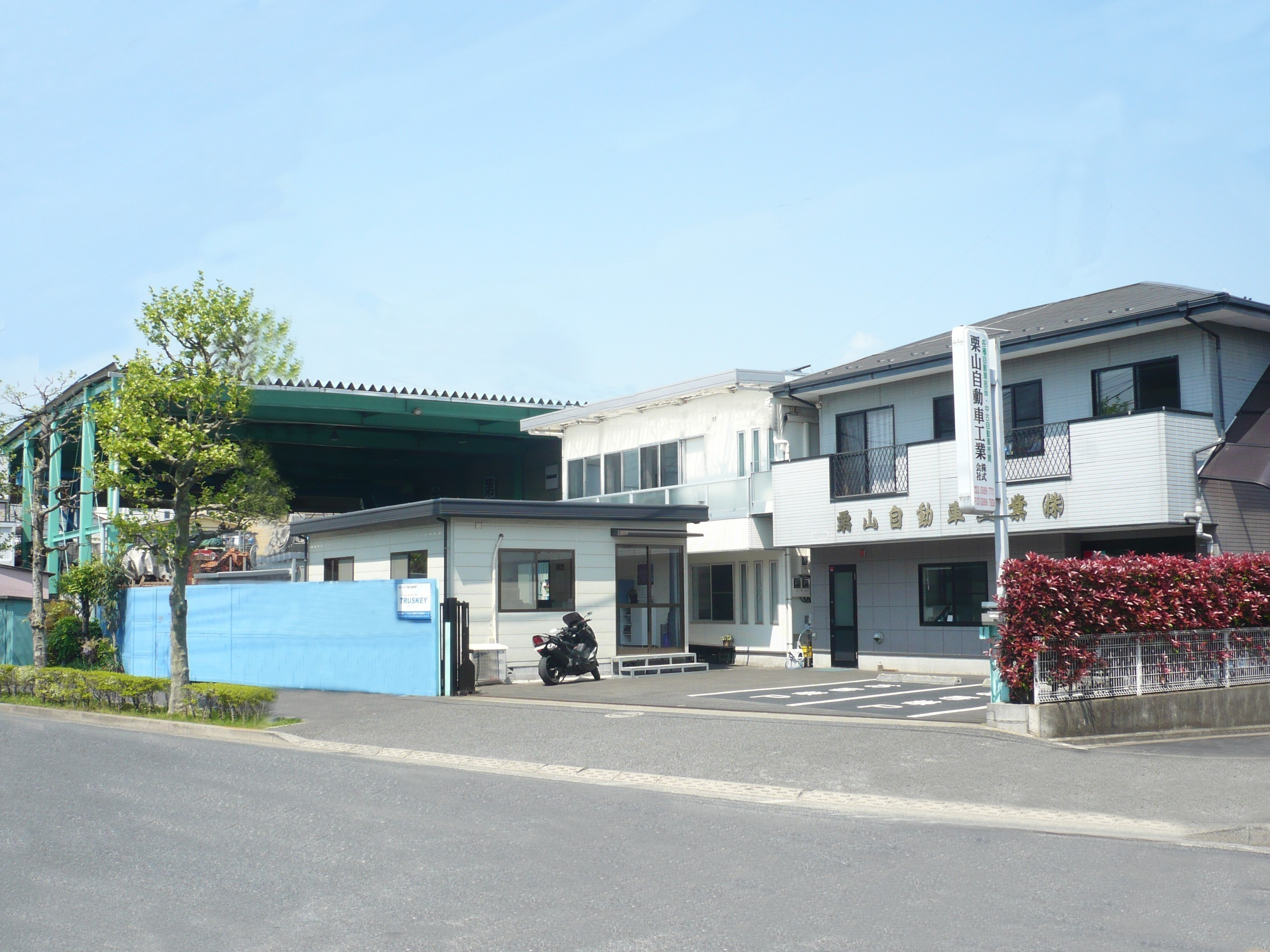 kuriyama-tokyo